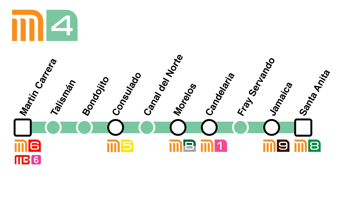 Mexico City Metro Line 4 plan, 2018